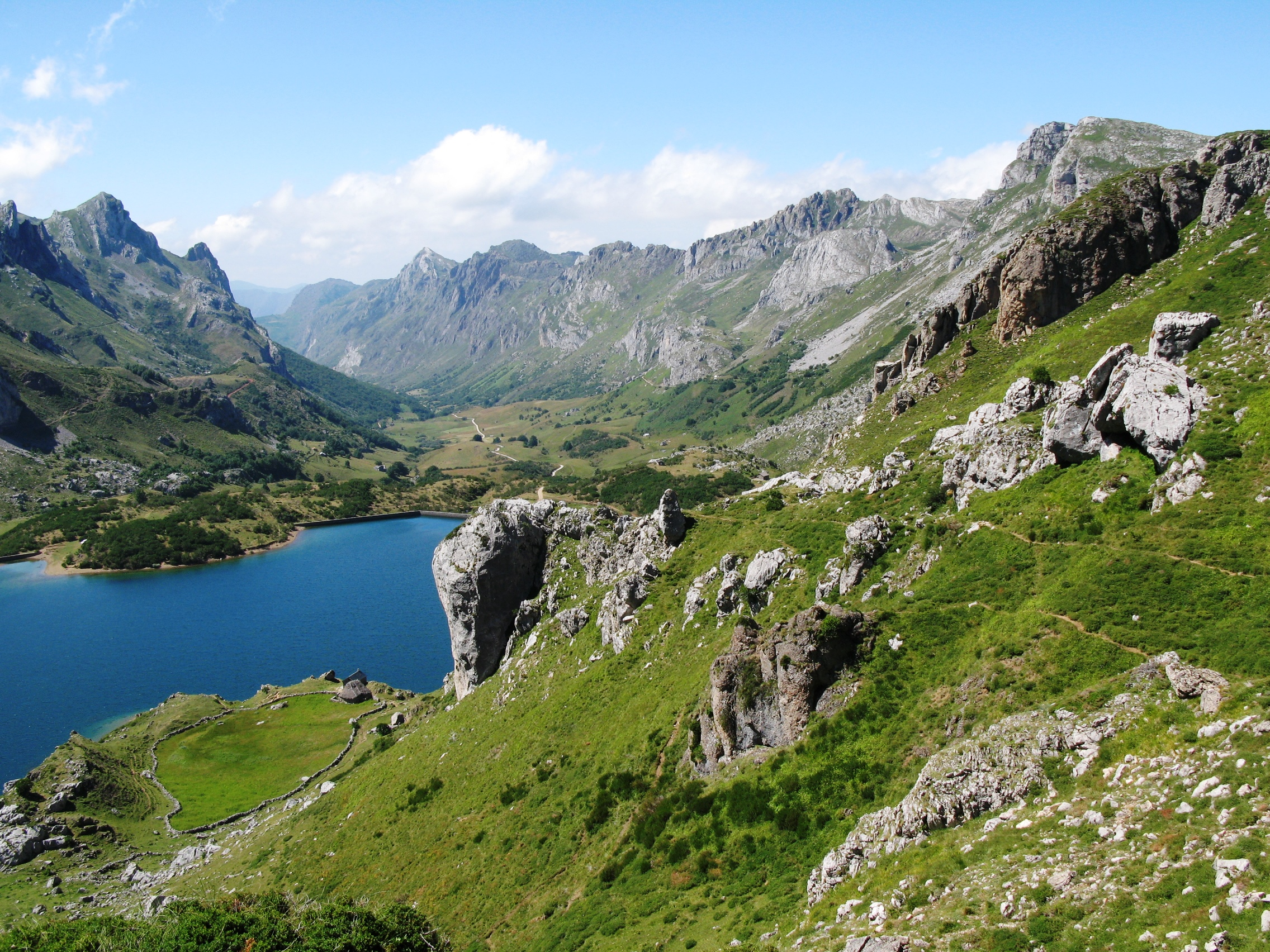 This is a photography of a Special Area of Conservation in Spain with the ID: ES0000054. Natura2000 entry, EEA entry